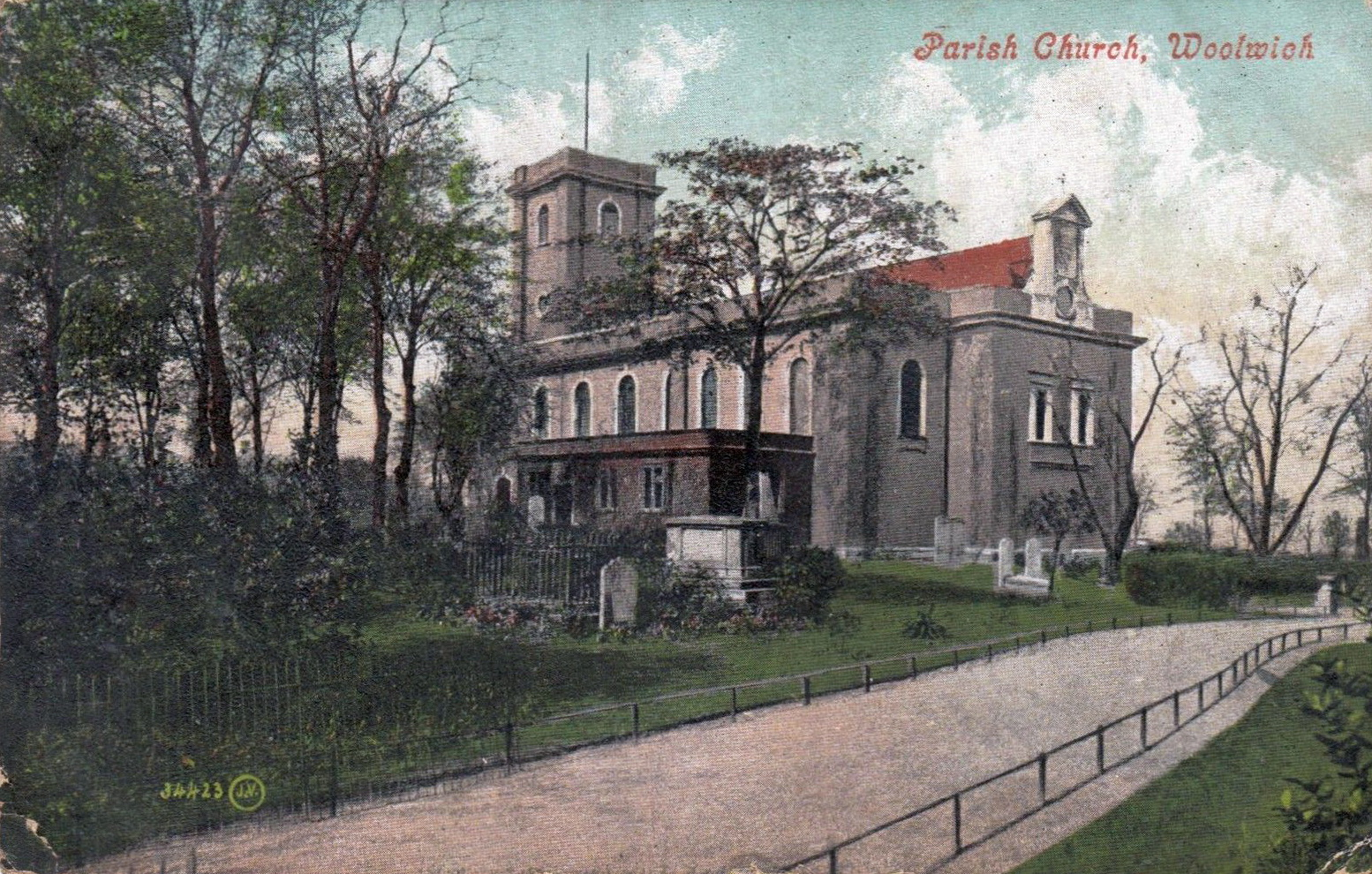 London, Woolwich, View of the former churchyard around the parish church of St Mary Magadalene, Woolwich, South East London. Saint Mary's Gardens was laid out in 1893-95. This postcard was probably published around 1900.